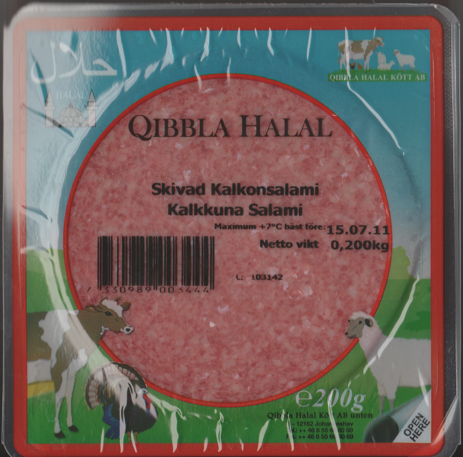 Muslims can only eat food that is Halal (legal, lawful or permissible). A package of sliced turkey salami produced by Qibbla Halal Kött AB. Logo not sharply defined. For educational purposes. Front side view.